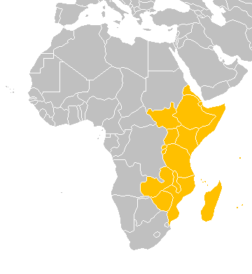 The map of East Africa region